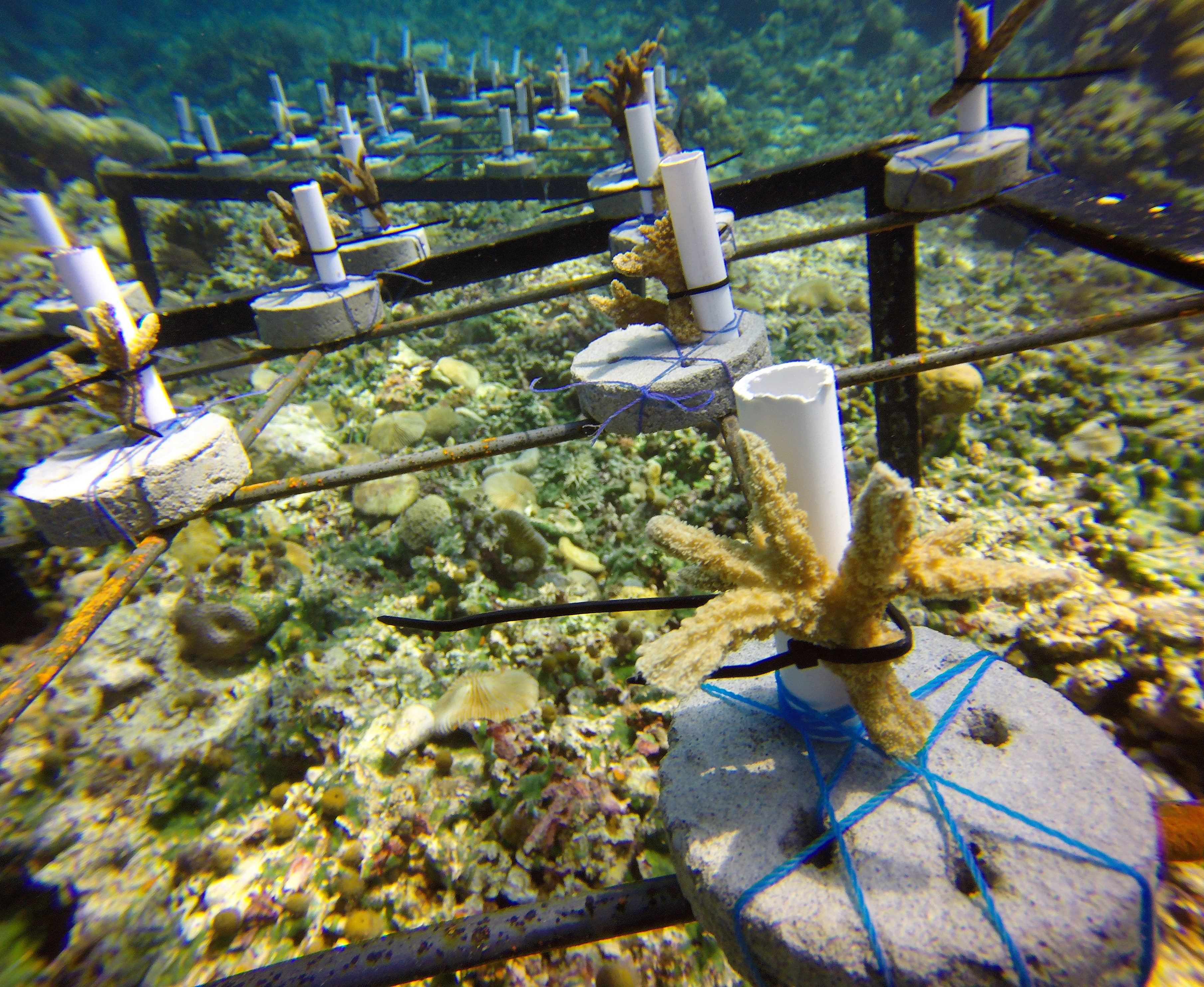 Coral transplantation is one of the ways to rehabilitate coral reefs on the coast and ocean. Coral transplants use parts of coral with a size of 10 cm (fragmentation), a coral commonly used in coral transplants is branching coral